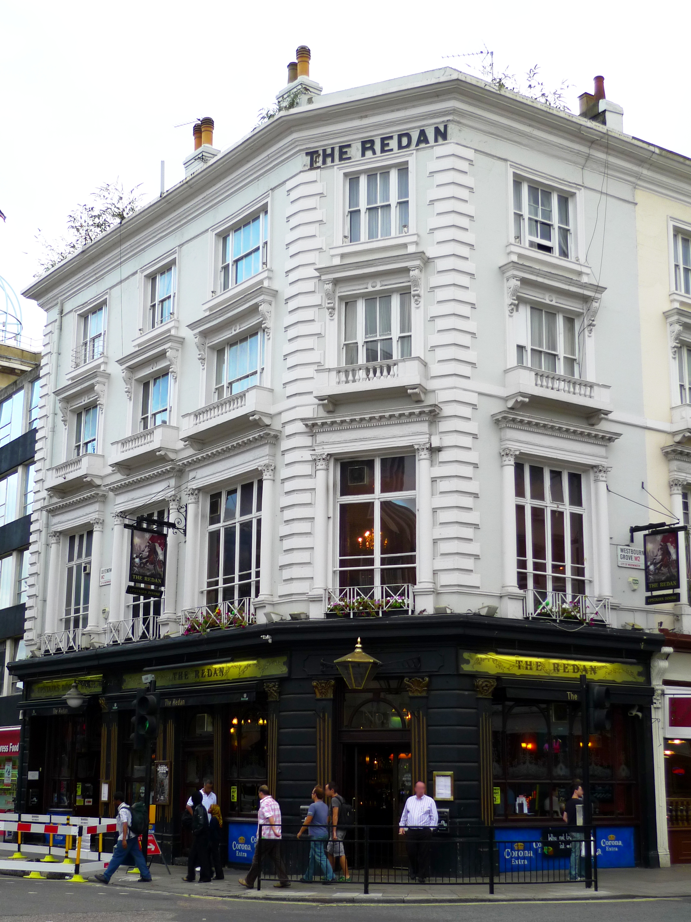 Large looking place named after an obscure battle. Address: 1 Westbourne Grove. Owner: Spirit Pub Company [Original Pub Company] (website); Punch Taverns [Spirit Group]. Links: Beer in the Evening Dead Pubs (history)